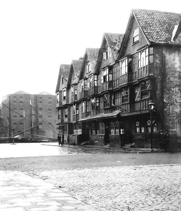 Scan by the contributor of photo taken by his mother Doris Ogilvie (now deceased) in 1930 or 1931.